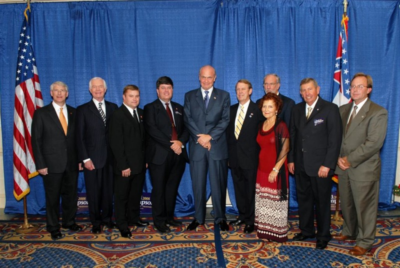 Description from Flickr - Fred Thompson with Mississippi elected officials - U.S. Rep. Roger Wicker, US. Sen. Thad Cochran, Miss. State Rep. Bubba Carpenter, Miss. State Senator Greg Snowden, Fred, Current Miss. State Sen. and Insurance Commish-elect Mike Chaney, Miss. State Rep. Rita Martinson Ridgeland, MS Mayor Gene McGee, Miss. State Rep. Jim Ellington, and Miss. State Rep. John Moore